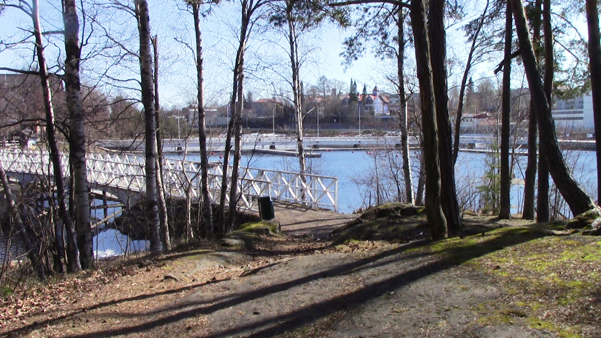 Verkkosaari island and the end of the bridge that leads in there in Savonlinna.